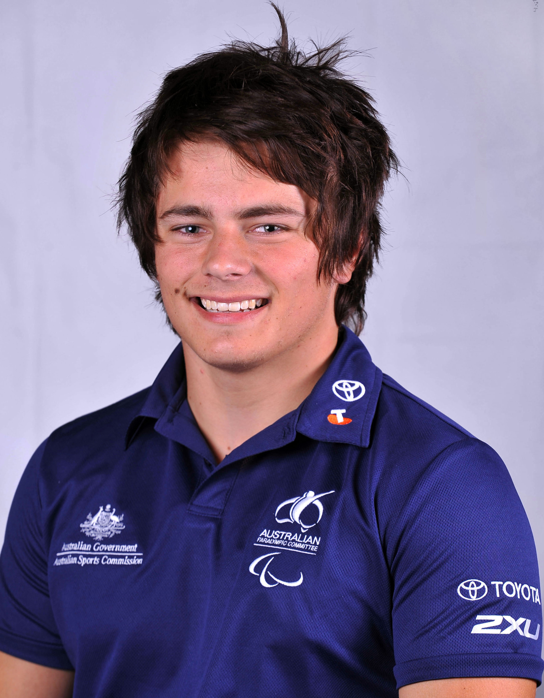 Portrait of Australian athlete Nathan Arkley, 2012 Australian Paralympic (shadow) Team athlete